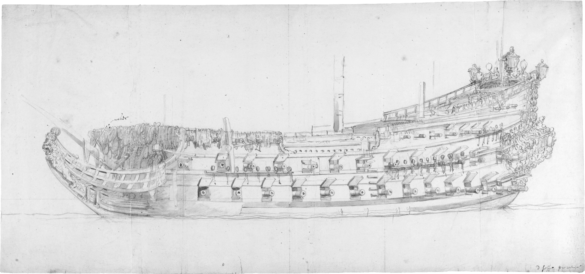 The Dutch ship Zeven Provincien (1665-1694) graphite and grey wash on three joined sheets 36,8 x 79,1 cm inscribed b.r.: d seffe provense inscribed c.l.: nañer